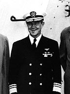 Cropped image of Vice Admiral Gerald F. Bogan Original caption: Photo #: NH 95745 (Complete Caption) - USS Valley Forge (CV-45) - Vice Admiral Gerald F. Bogan, Commander, First Task Fleet, with officers and visitors during a demonstration cruise for members of the American Ordnance Association, off Long Beach, California, 27 April 1949. Those present are (from left to right): Captain Truman J. Hedding, USN, Ship's Commanding Officer; Mr. Henry L. Clark, President of the Los Angeles American Ordnance Association Chapter and General Manager of the General Motors plant at South Gate, CA.; Vice Admiral Gerald F. Bogan; Colonel L.A. Codd, Executive Vice President of the American Ordnance Association; Ed. Godfrey, Vice President of General Motors and Rear Admiral Dixwell Ketcham, USN, Commander, Carrier Division Five.